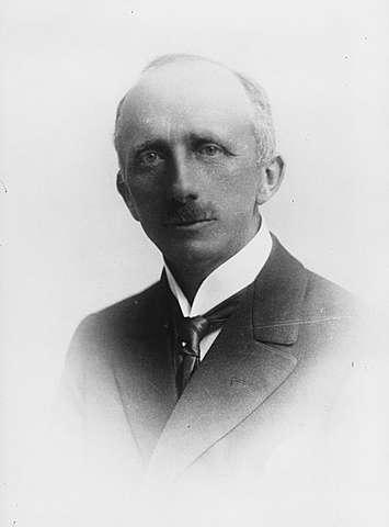 Per Kure (1972–1945), Norwegian electroengineer and businessman